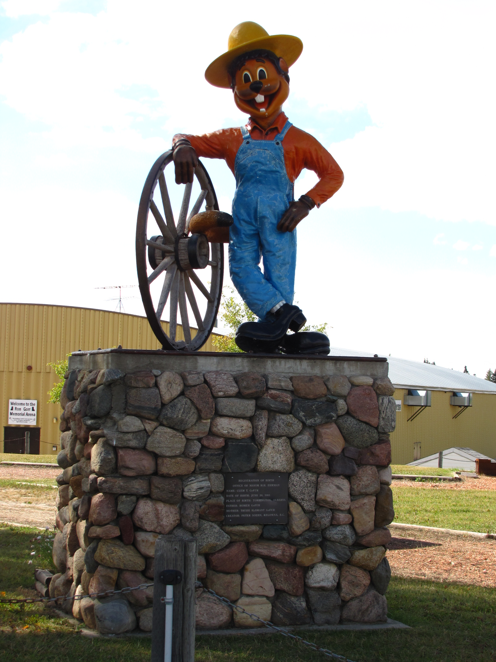 The gopher statue that welcomes you to Torrington. The whole thing more or less started with this statue. The museum followed.